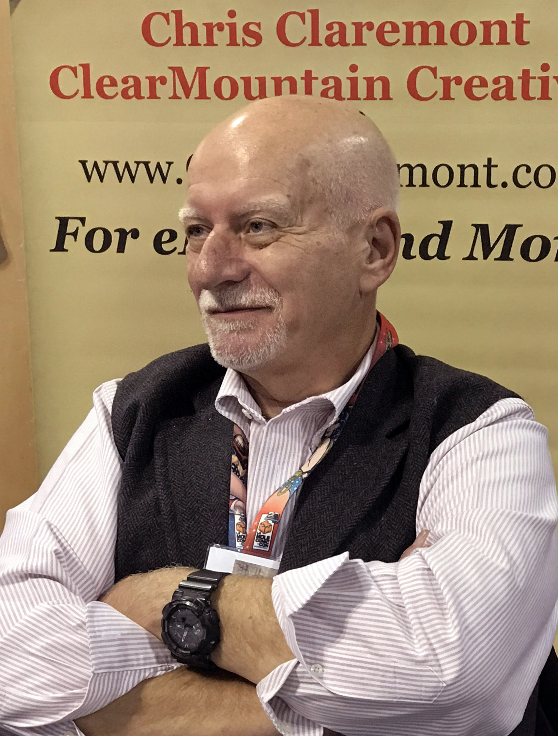 Comic book writer and novelist Chris Claremont in Artist Alley at the Jacob K. Javits Convention Center in Manhattan, on Saturday October 8, 2013, Day 3 of the 2016 New York Comic Con. This photo was created by Luigi Novi. It is not in the public domain, and use of this file outside of the licensing terms is a copyright violation.